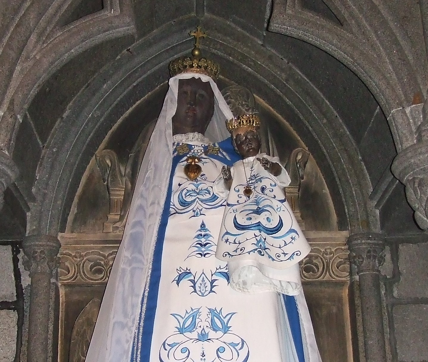 photograph of the Black Madonna of Guingamp. Original sculpture dates to no later than 17th century.